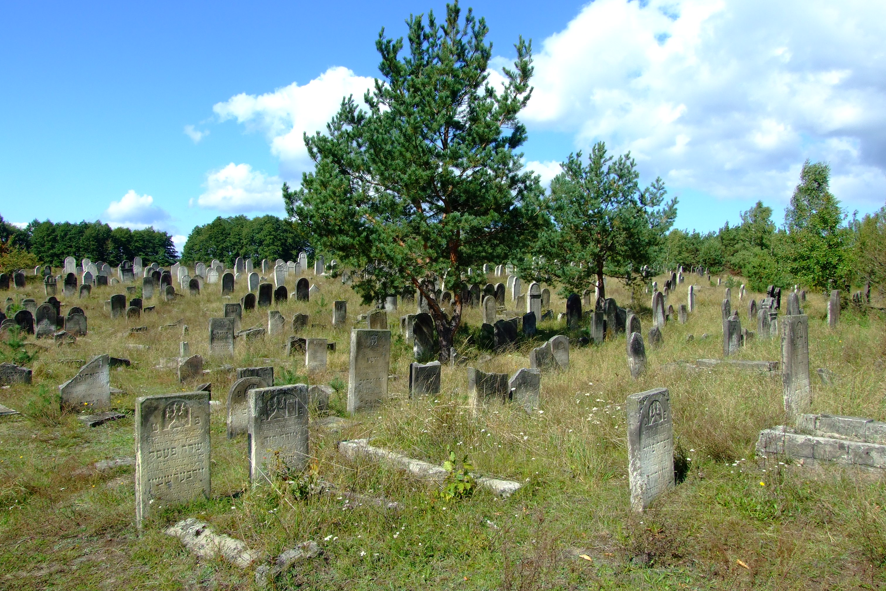 Jewish cemetery in Żarki/Poland